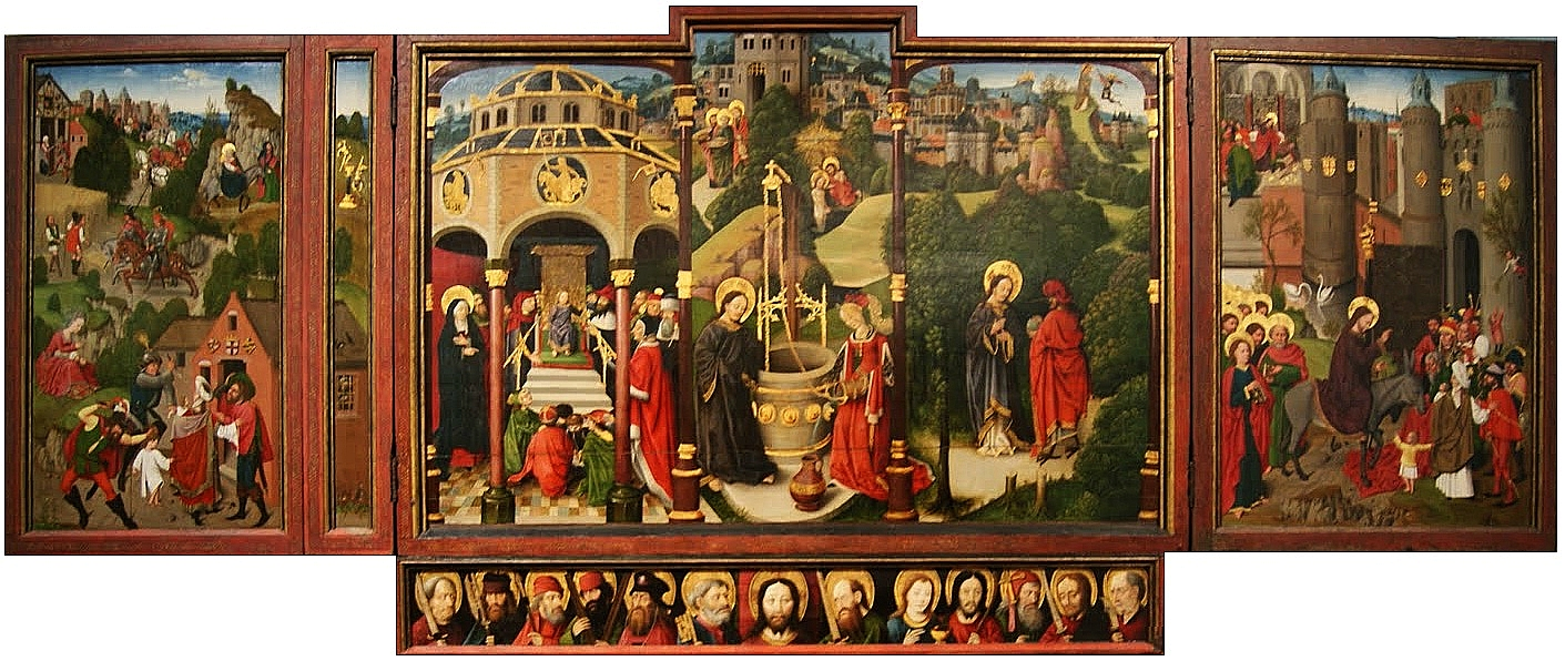 Left panel, obverse. Scenes: The Massacre of the Innocents, Herod's soldiers, Miracle of cereal, Flight into Egypt.